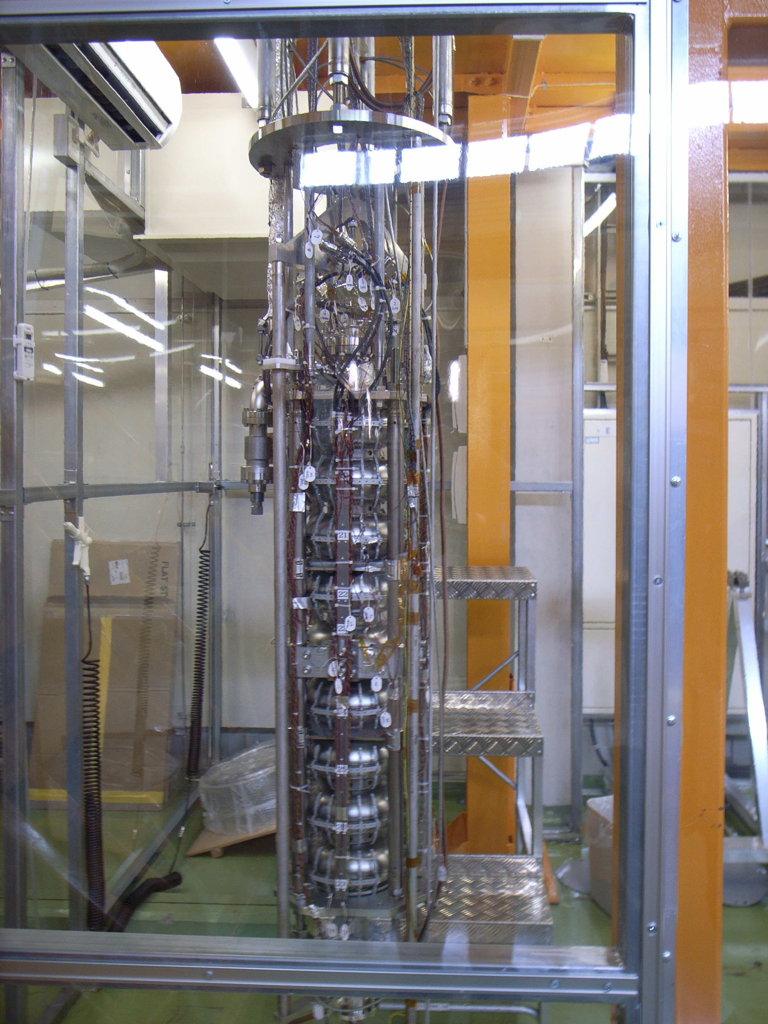 Superconducting radio frequency cavity in KEK